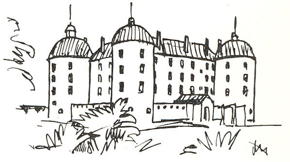 Örebro castle in the 1700th century according to Magnus Dahlander